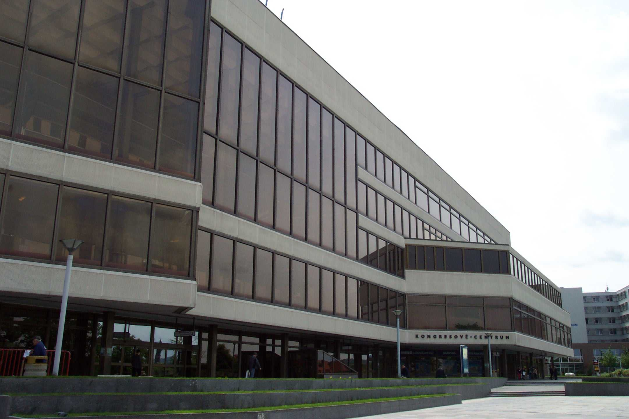 Main Congress center in Prague, Pankrác area. The picture is overlooking the main facade and the enterance to the facilityhelp